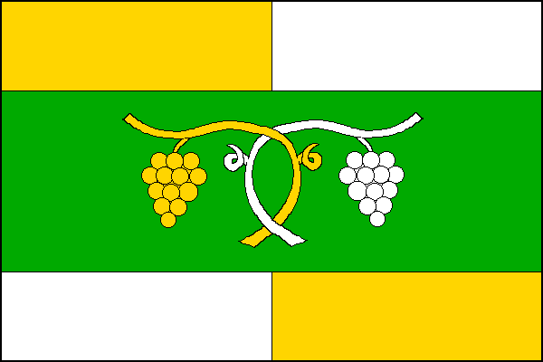 Municipal flag of Tučapy village, Uherské Hradiště District, Czech Republic.